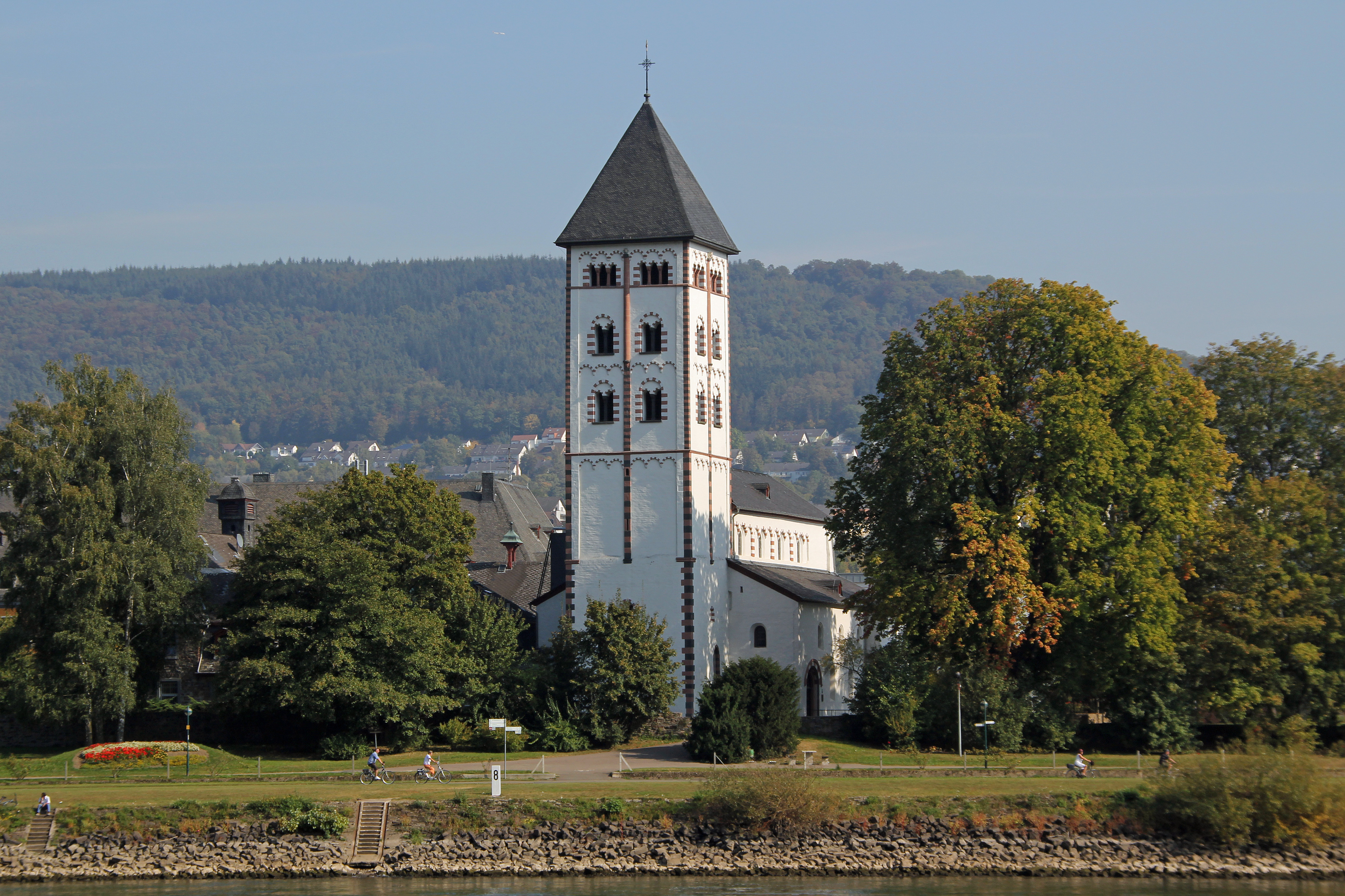 St. Johannis church in Lahnstein